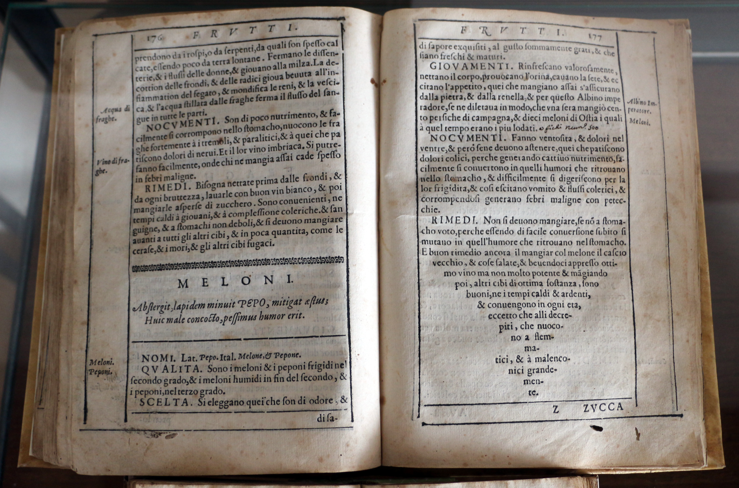 Museo Civico (Gualdo Tadino)